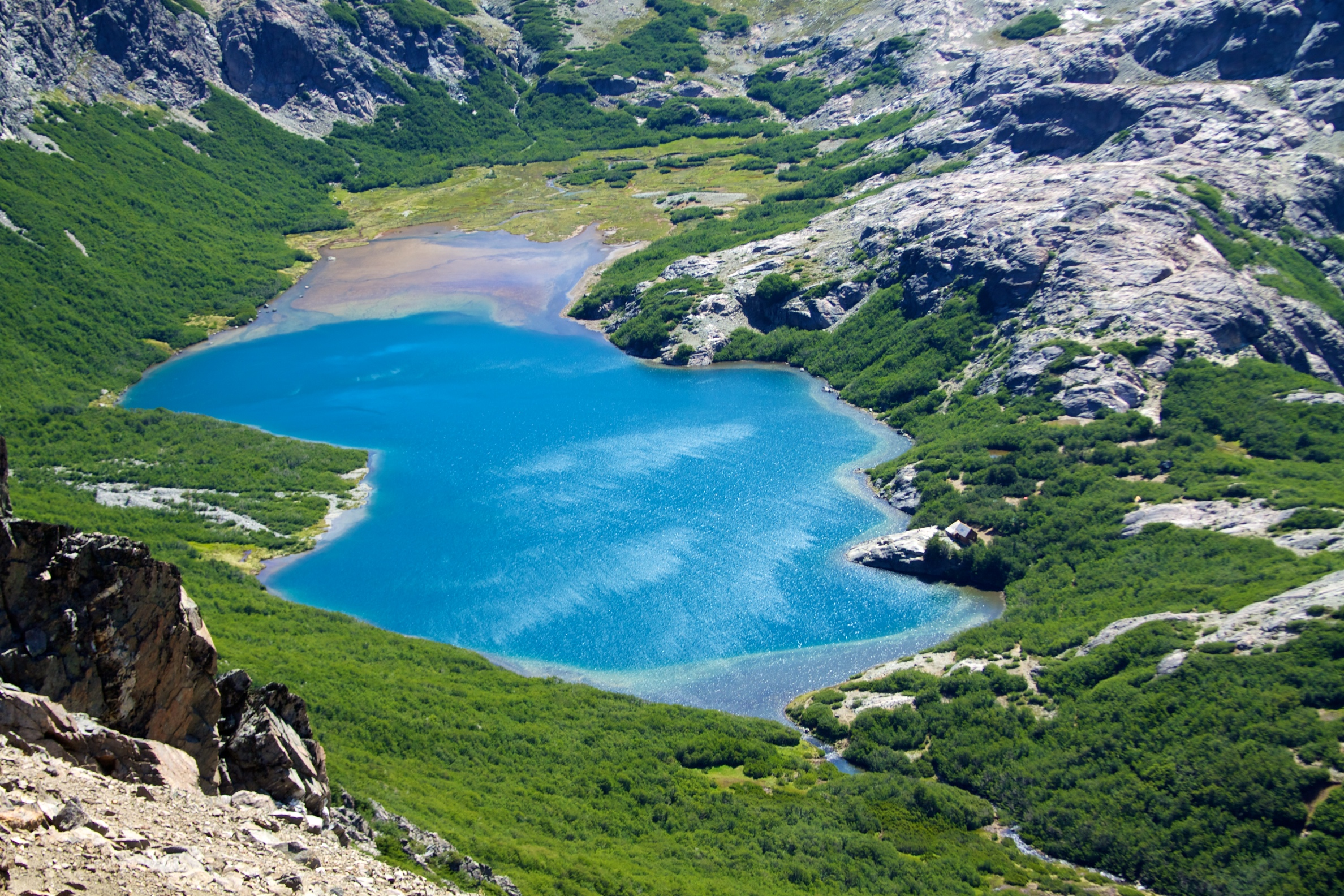 Bright blue Jakob lake greets us as our destination for the day. If you look closely, you can see the rufugio on its shoreline rock in the bottom right.